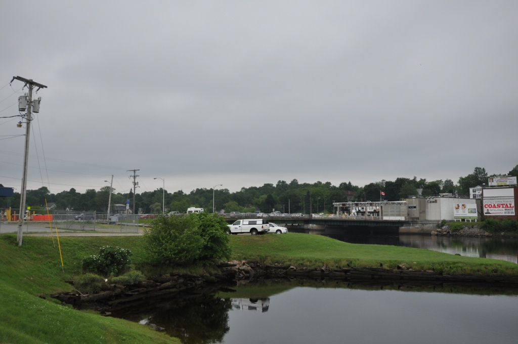 The Ferry Point International Bridge, connecting Calais, Maine and St. Stephen, New Brunswick.